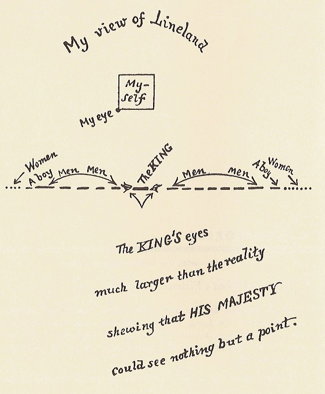 Intended for inclusion in Wikisource article for Flatland